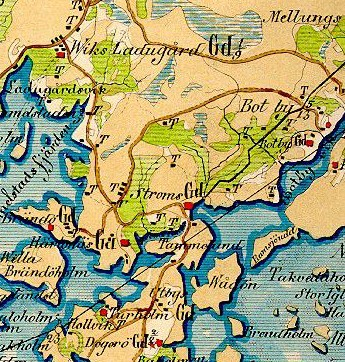 Part of a map from Kalmberg's Maps. This map covers East Helsinki, Finland.